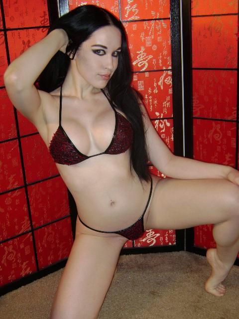 photo I shot of Jade for public use